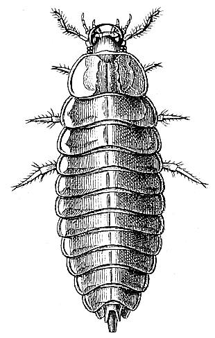 larva of Cychrus caraboides syn. Cychrus rostratum from Edmund Reitter Fauna Germanica I. Bd 1908 Tafel 7 Fig 1a